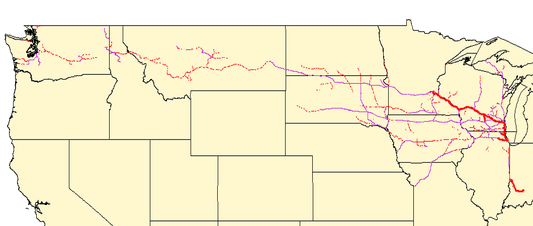 Map of the Chicago, Milwaukee, St. Paul and Pacific Railroad. Thick red lines indicate trackage still operated by CP Rail; purple lines indicate former MILW trackage now operated by other railroads; red dashed lines indicate abandoned track. Created with Quantum GIS with data from the National Transportation Atlas Database.